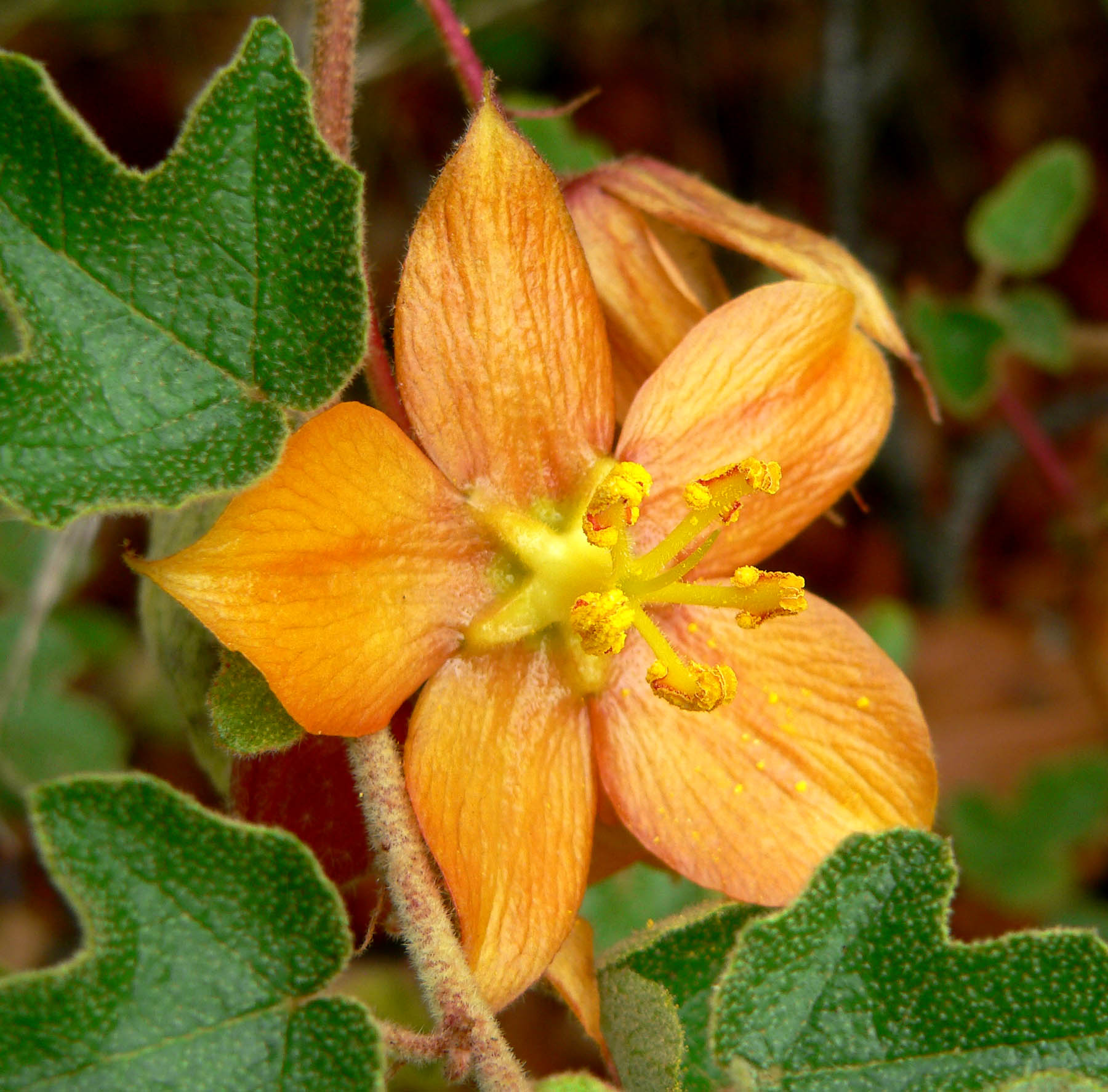 Photo of Fremontodendron californicum ssp. decumbens at the University of California Botanical Garden